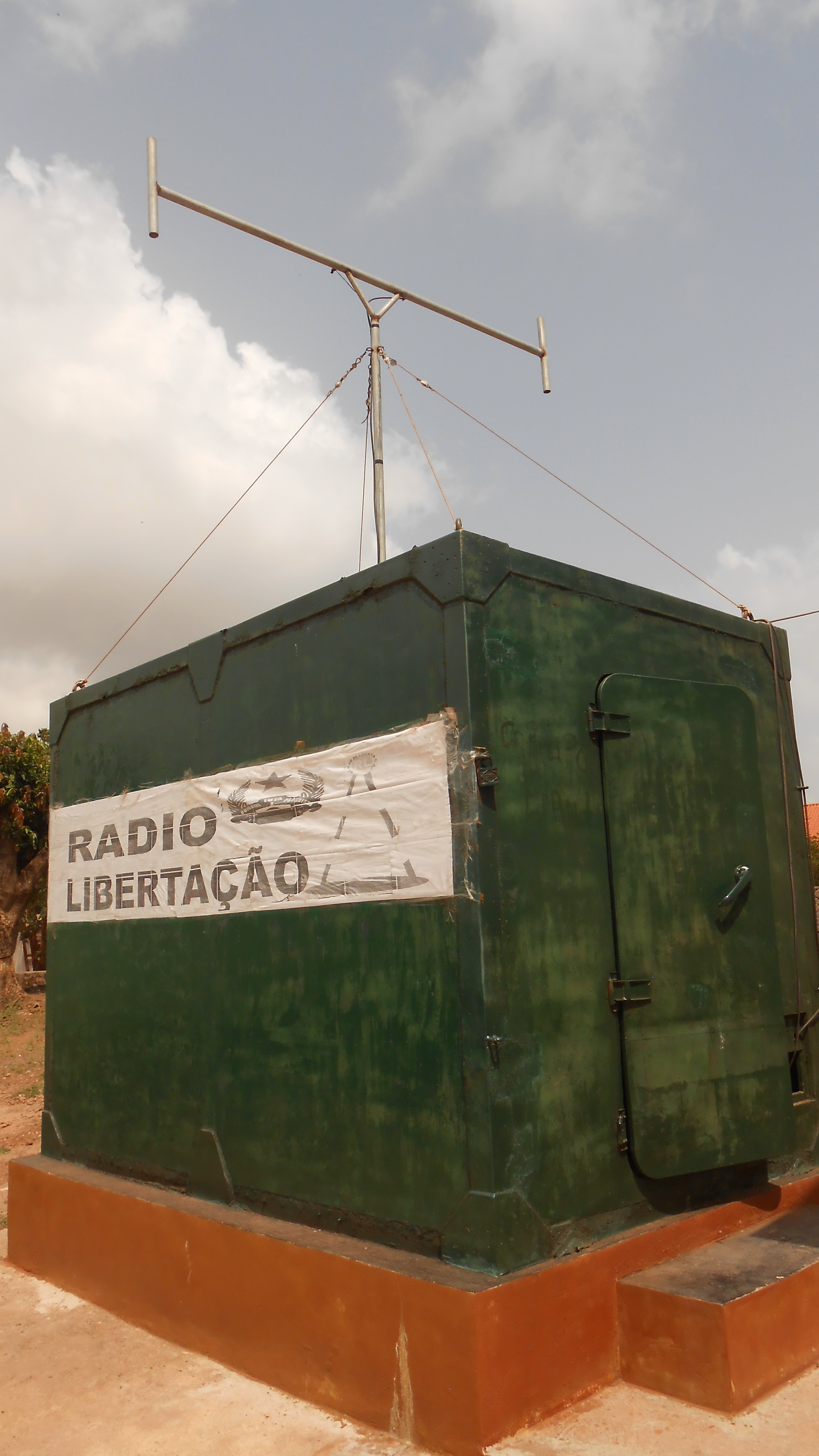 The container, from where the Rádio Libertação, the radio station of the guerilla fighter broadcasted in the days of independence war against portuguese rule. The container is part of the Museu Militar da Luta de Libertação Nacional in Bissau.